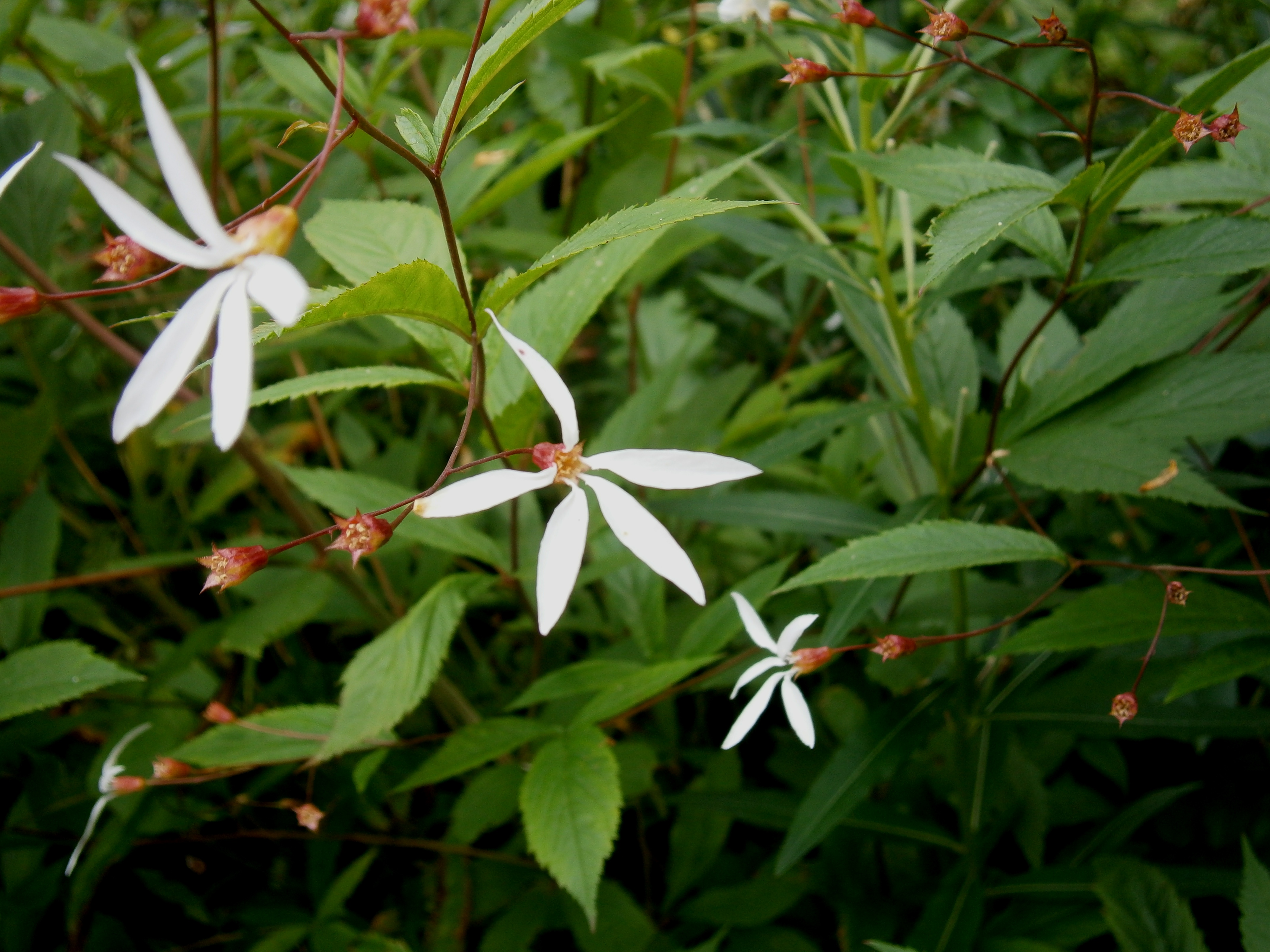 Gillenia trifoliata close-up